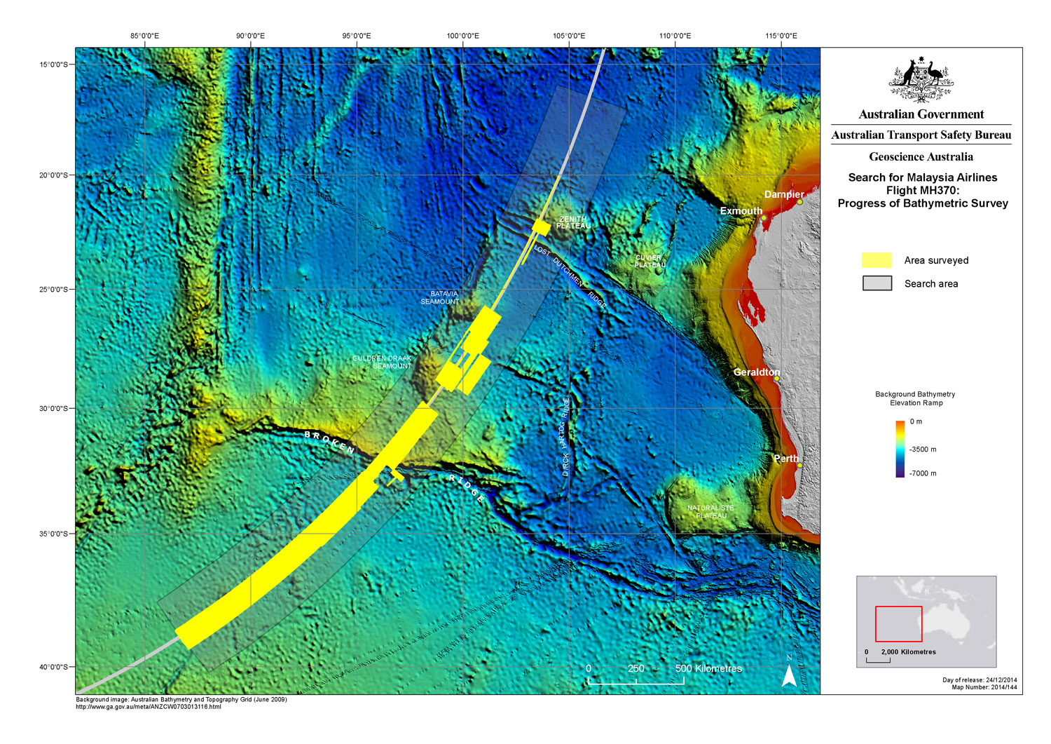 Areas where a bathymetric survey has been carried out, as of 23 December 2014, as part of the search for Malaysia Airlines Flight 370. The survey was necessary because some of the equipment to be operated in the underwater search (search area highlighted in grey) for Malaysia Airlines Flight 370 needs to operate close to the seafloor and previous bathymetric data for the area is of low resolution (primarily from satellite measurements). MV Fugro Equator suspended bathymetric survey work on 17 December 2014 to return to port in Freemantle to be equipped to return to the search area and participate in the underwater search.